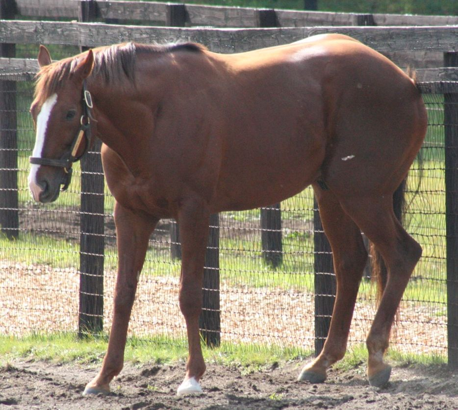 Daiwa Major